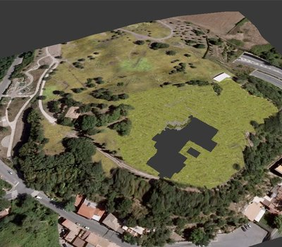 This is what organizations work to preserve.